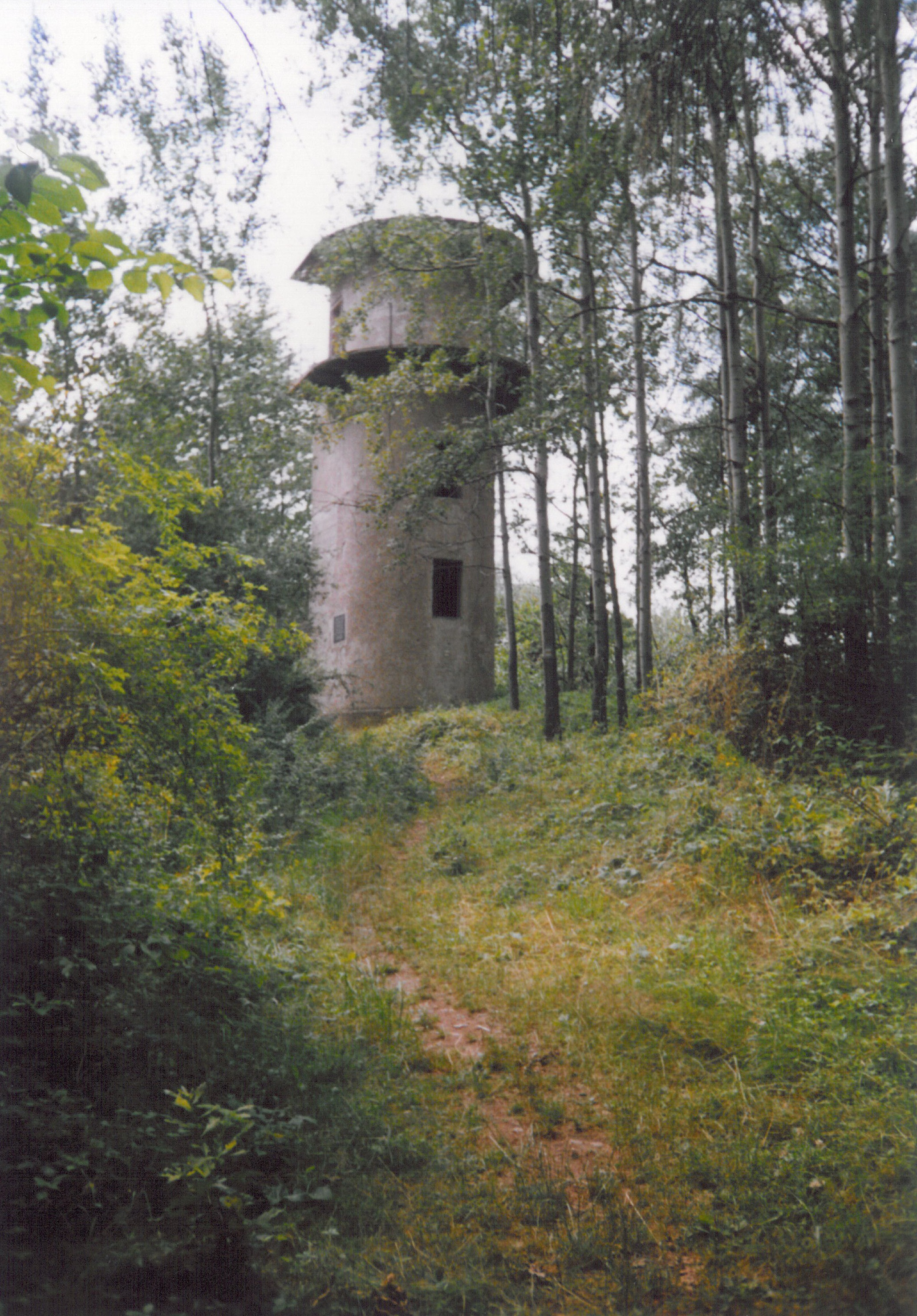 Observation tower Neštětická hora